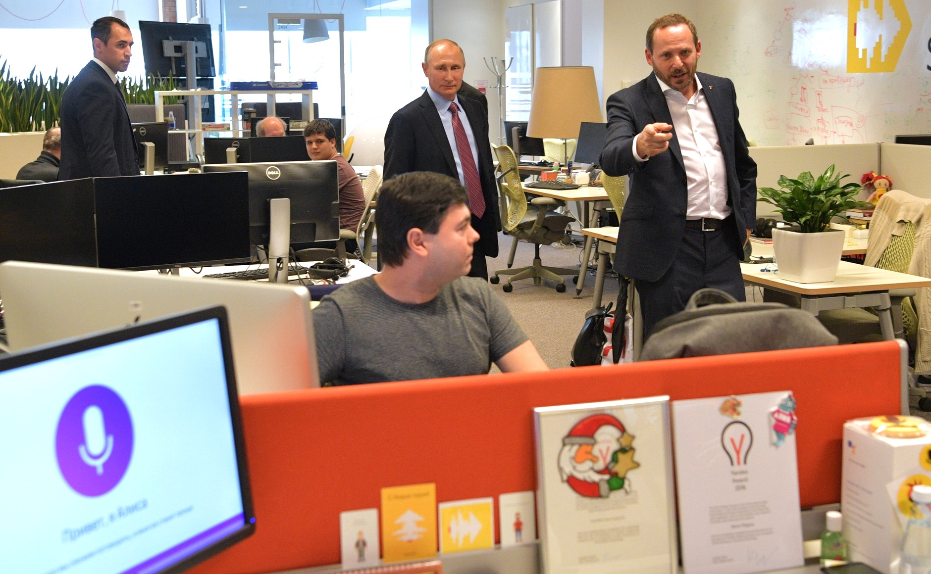 2017-09-21 Vladimir Putin visited the Moscow office of Yandex, Russia’s leading internet service company, which will mark its 20th anniversary this year.